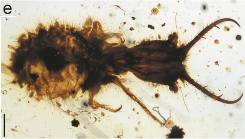 Figure 2 Diversity of the larvae of Myrmeleontiformia in mid-Cretaceous Burmese amber. E) Mesoptynx unguiculatus, holotype NIGP164043 habitus ventral view; Scale bar: 0.5 mm.